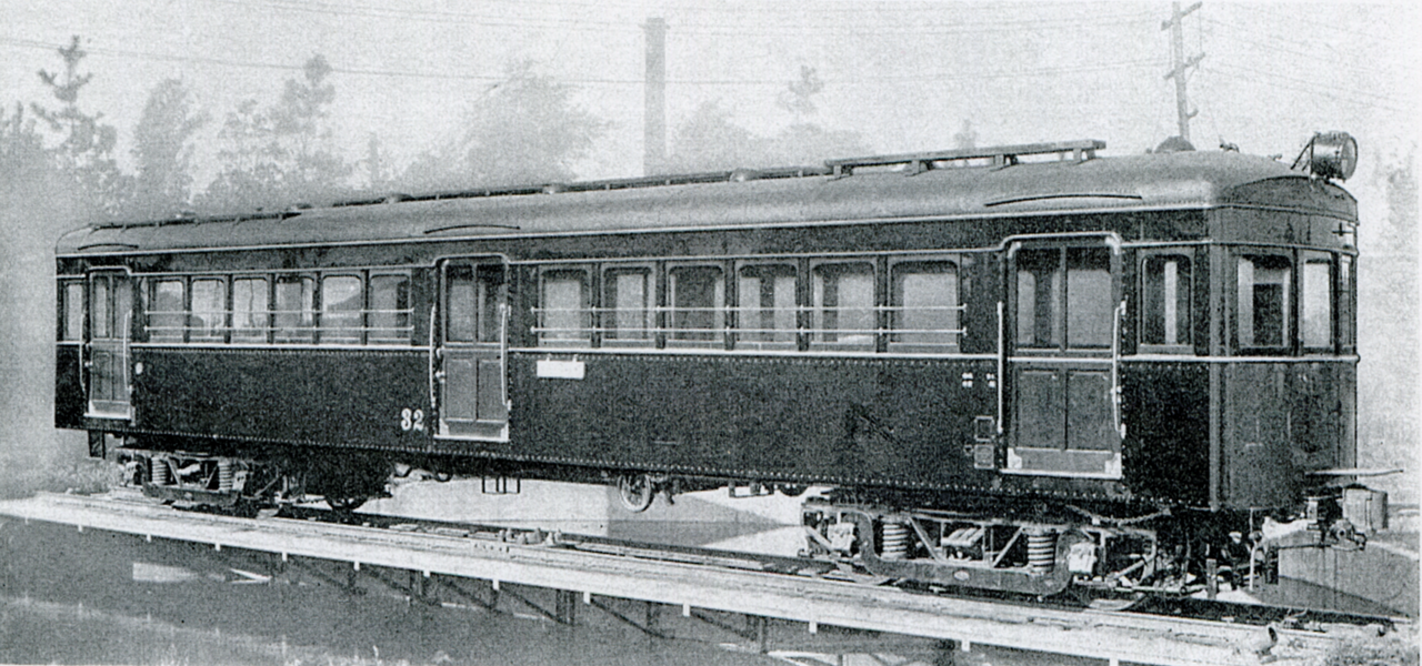 Toyokawa Railway Type Moha 30 EMU No.32